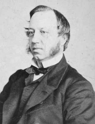 Hon. P. J. O. Chauveau, Montreal, QC, 1863